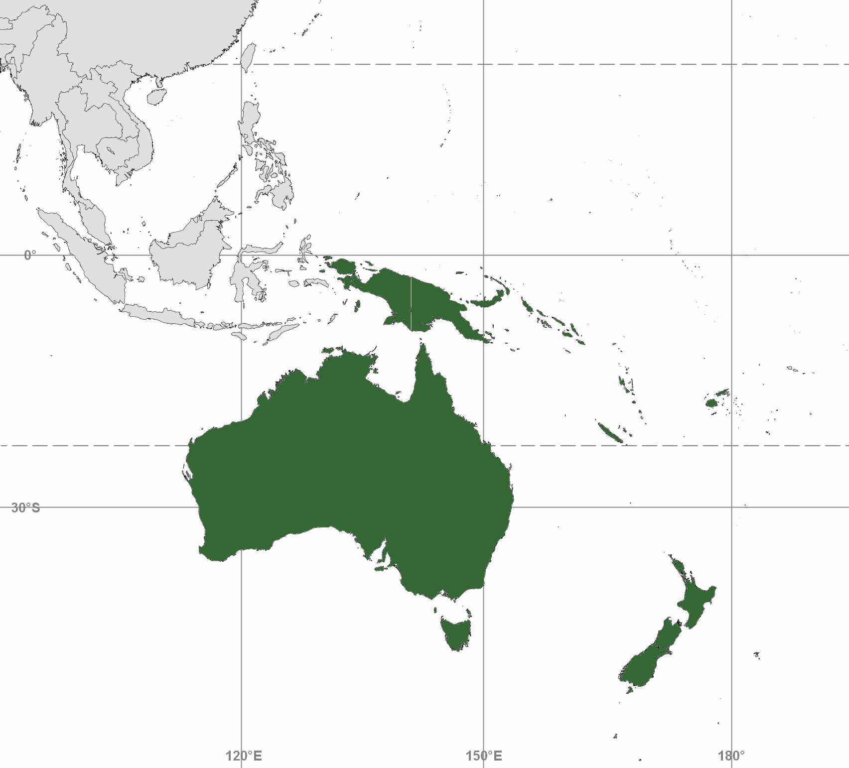 Map depicting Australasia; differs from maps for Commonwealth of Australia and Australian continent Map includes Australia (including Tasmania and Torres Strait Islands); New Zealand; and Melanesia: New Guinea, eastern Aru Islands (as delineated by Lydekker Line), and mainland provinces of Papua New Guinea, Fiji, New Caledonia, Solomon Islands, and Vanuatu. Map adapted from PDF world map at CIA World Fact Book